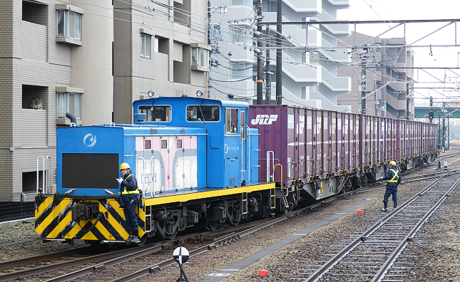 Paper corporation's switcher, Kasugai St., Aichi, Japan.